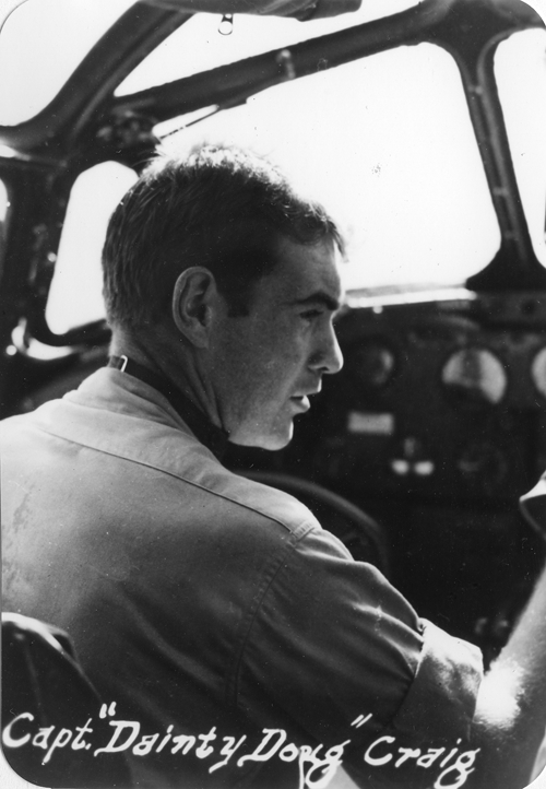 USAAF 1st Lt Douglas S Craig (380th Bombardment Group)